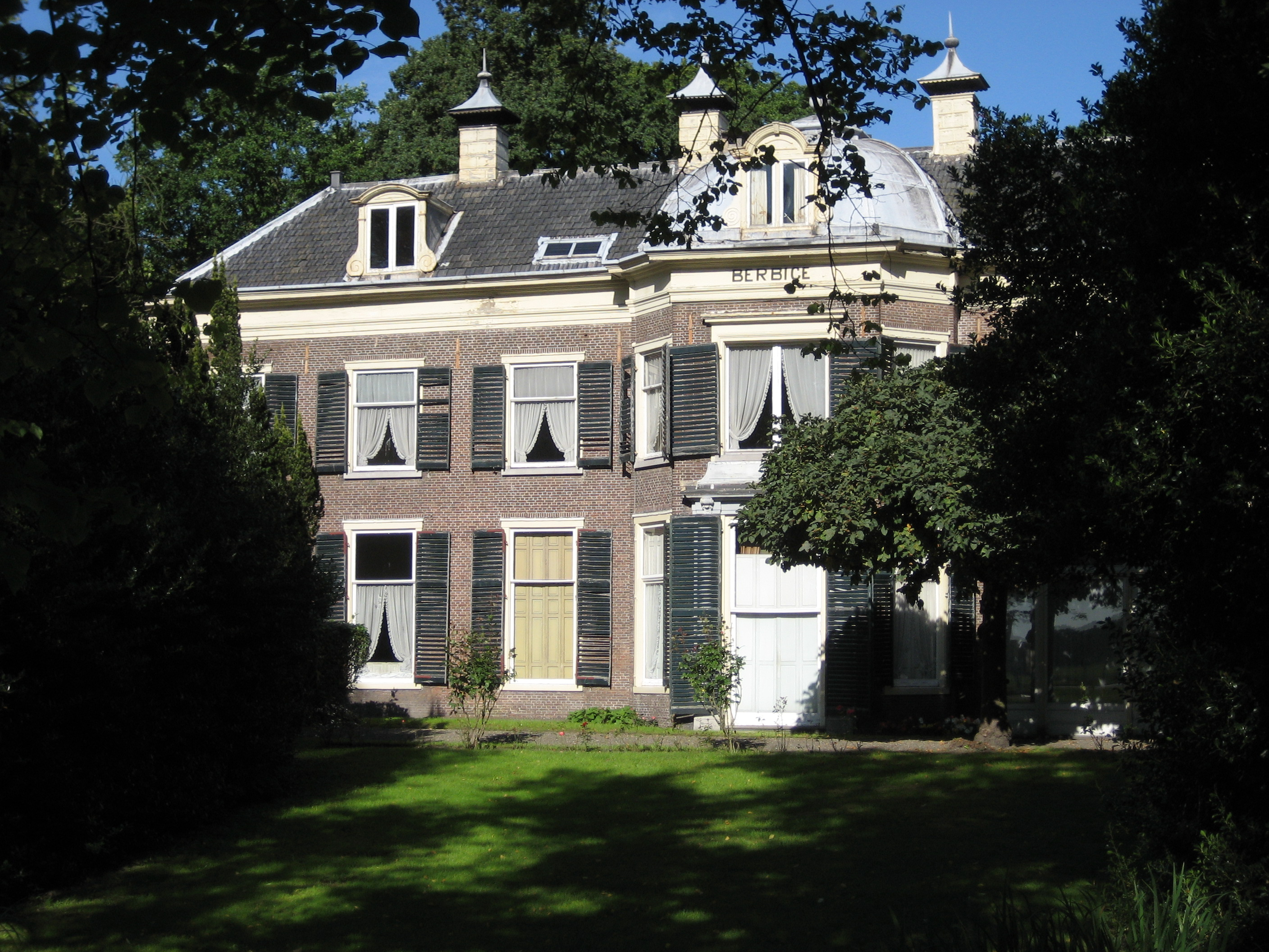 House Berbice in Voorschoten.